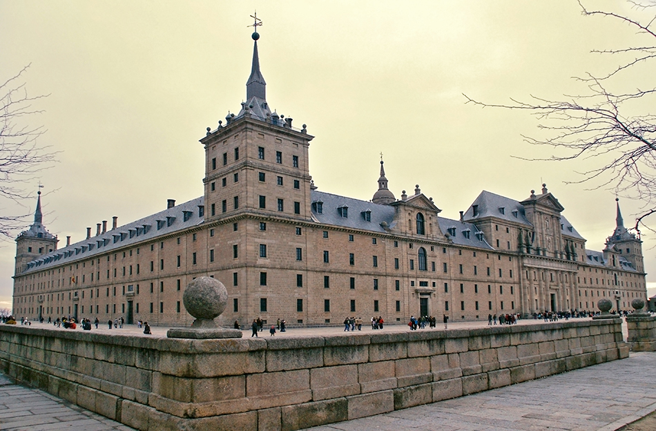 Monasterio de El Escorial al atardecer en invierno.